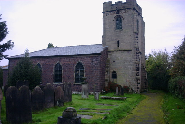 Milwich Church The church at Milwich.